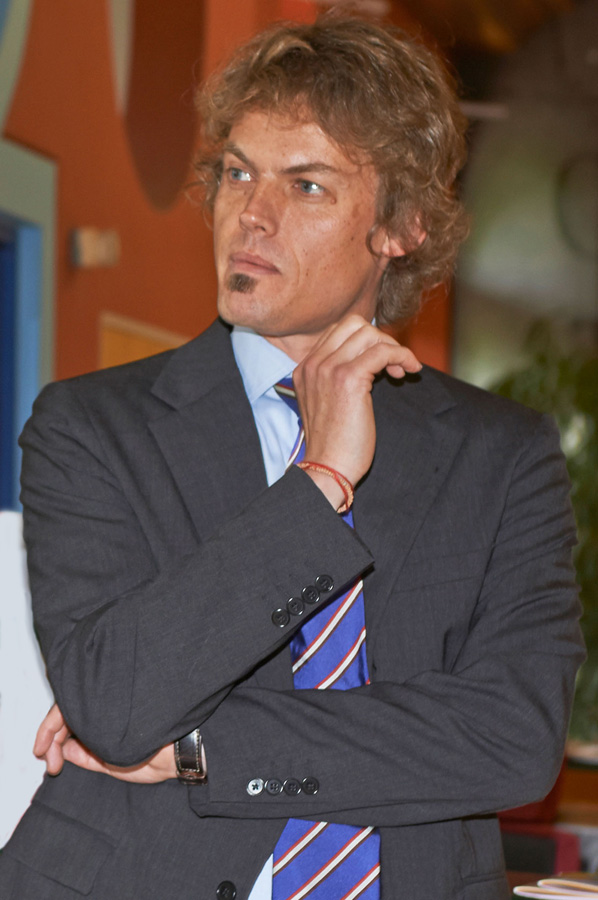 Author Mark de Rond, Cambridge, 2013.